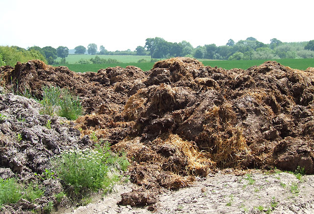 Manure pile in Much Wenlock, Shropshire, England